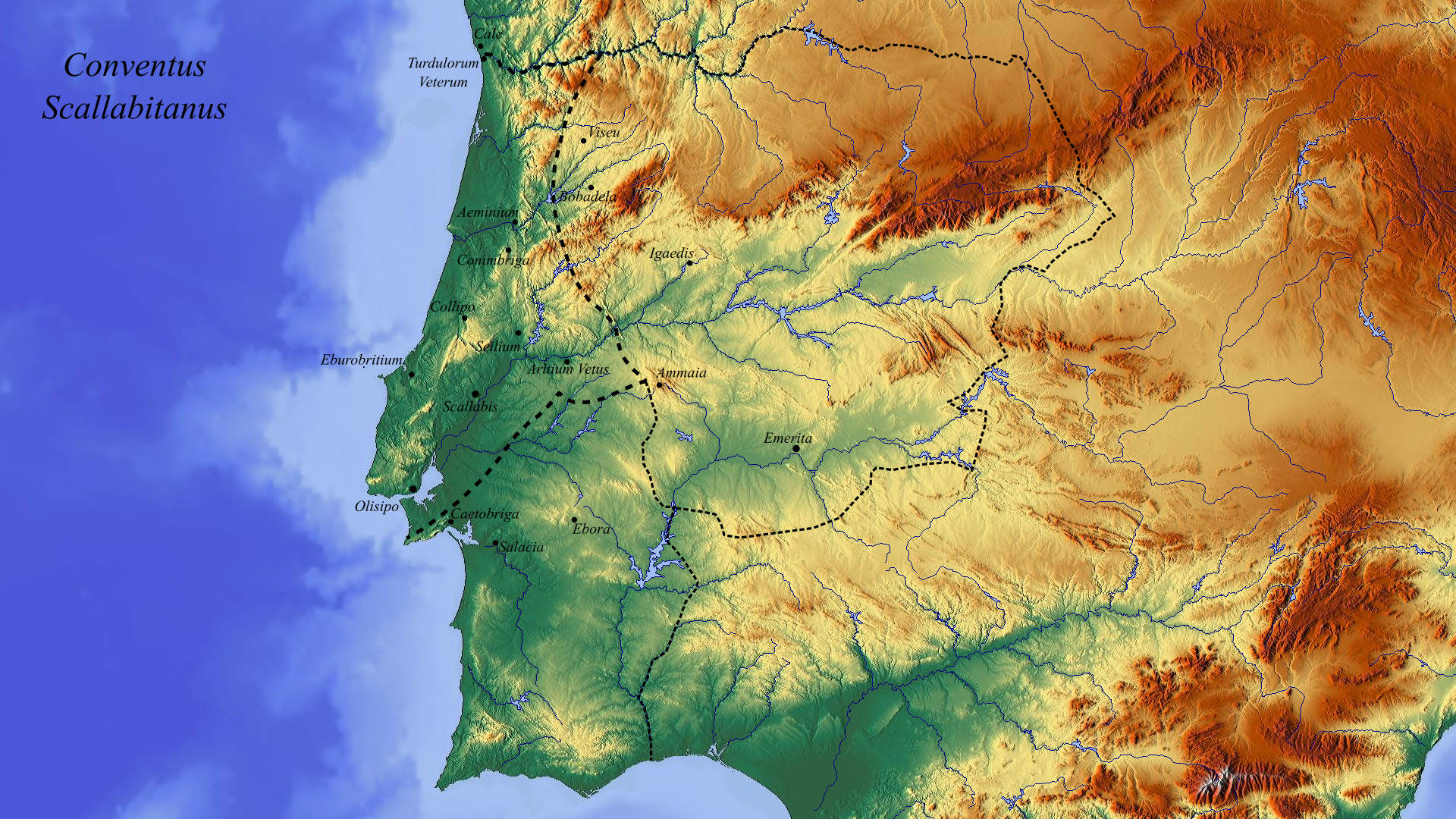 Own Work. The relief base map was taken from , itself derived from OpenStreetMap A broad interpretation focused on the borders of Conventus Scallabitanus, but also depicts Conventus Pacensis and Emeritensis. Based on the interpretation (with some changes) of - TRANOY, A.; SILLIÈRES, P.; SALINAS de FRÍAS, M.; MANTAS V.G.; GORGES, J.G.; ALARCÃO, J. (1990) – Propositions pour un nouveau tracé des limites anciennes de la Lusitanie romaine. In Les villes de Lusitanie romaine: hierarchies et territoires, table ronde internationale du CNRS. Paris, Centre National de la Recherche Scientifique. P. 319-329.